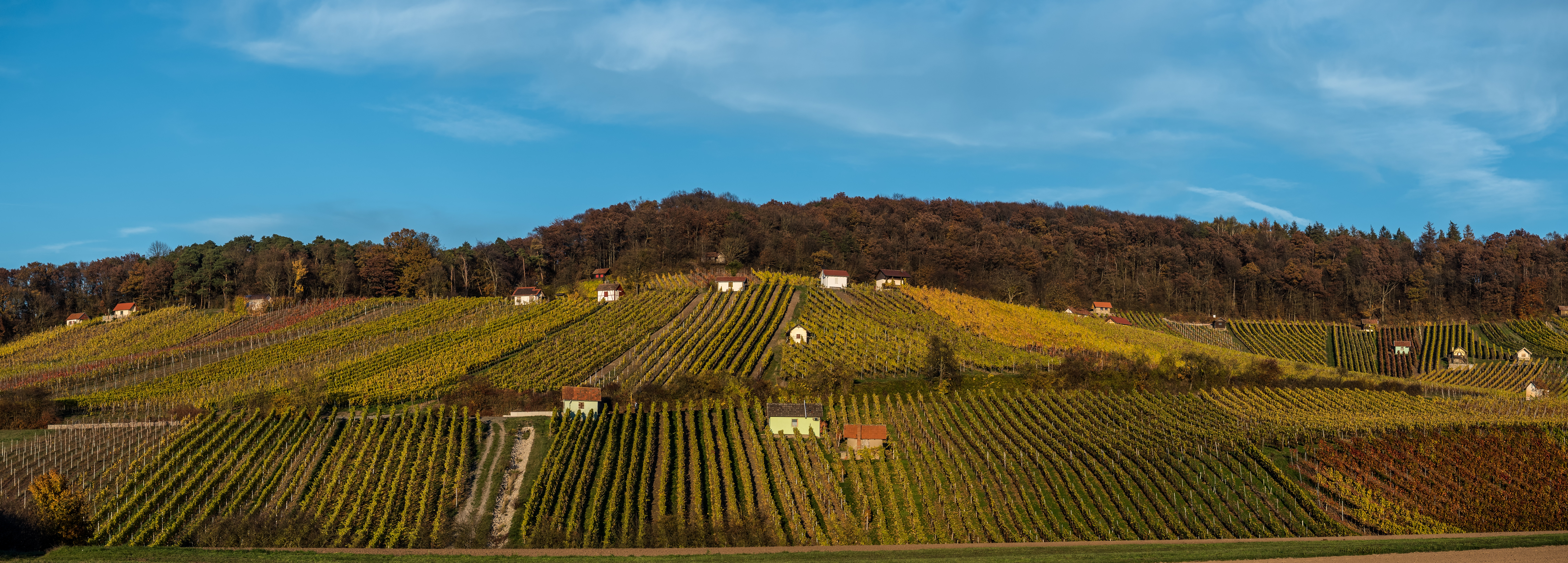 Donnersdorfer Falkenberg Panorama